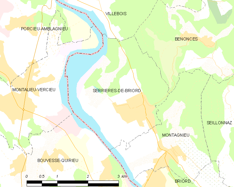 Map of French commune: Serrières-de-Briord Map commune FR insee code 01403.png